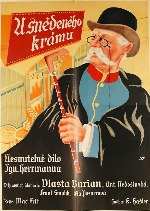 Czech movie poster to Czech film U snědeného krámu (1933)